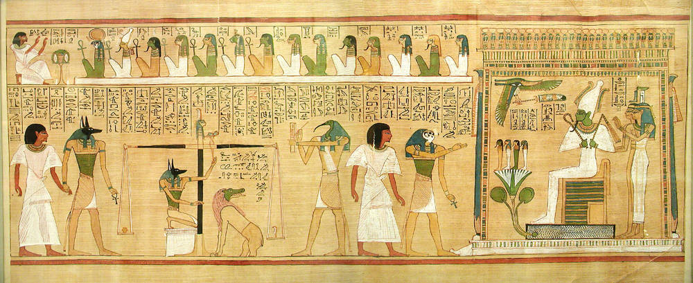 Weighing of the heart scene, with Ammit sitting, from the book of the dead of Hunefer. From the source: "The judgement, from the papyrus of the scribe Hunefer. 19th Dynasty. Hunefer is conducted to the balance by jackal-headed Anubis. The monster Ammut crouches beneath the balance so as to swallow the heart should a life of wickedness be indicated. EA9901." Anubis conducts the weighing on the scale of Maat, against the feather of truth. The ibis-headed Thoth, scribe of the gods, records the result. If his heart is lighter than the feather, Hunefer is allowed to pass into the afterlife. If not, he is eaten by the waiting chimeric devouring creature Ammit, which is composed of the deadly crocodile, lion, and hippopotamus. In the next panel, showing the scene after the weighing, a triumphant Hunefer, having passed the test, is presented by falcon-headed Horus to the shrine of the green-skinned Osiris, god of the underworld and the dead, accompanied by Isis and Nephthys. The 14 gods of Egypt are shown seated above, in the order of judges.